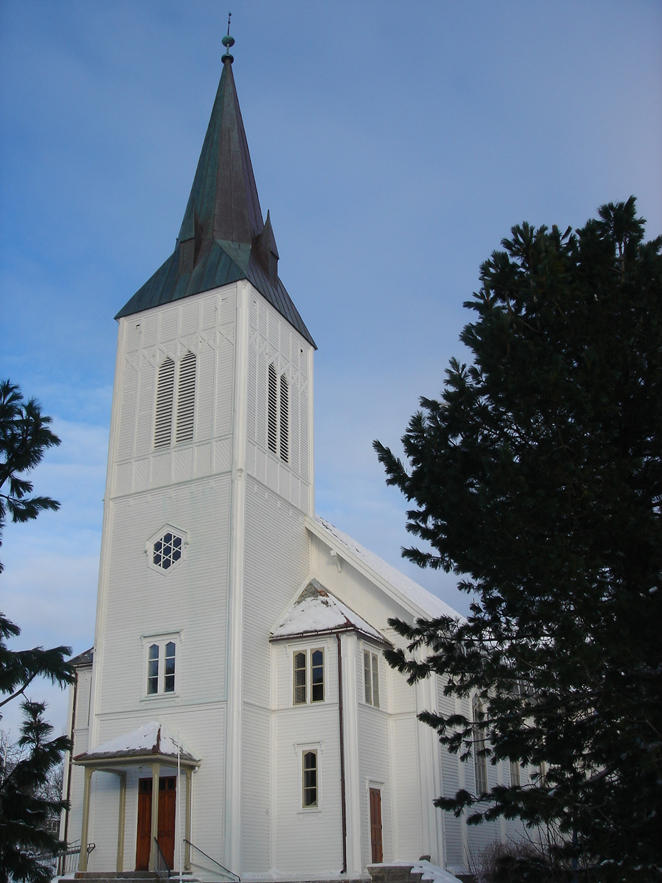 Sortland church in Sortland, Norway